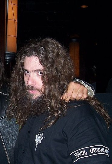 Martin Eric Ain